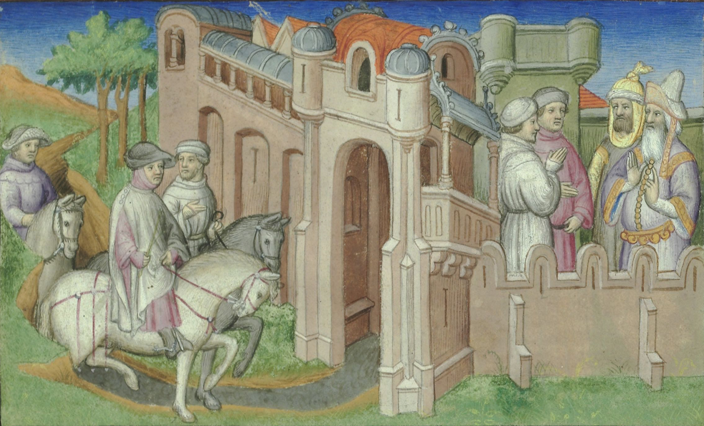 Arrival of Polo brothers to Bukhara. Messenger of Hulagu